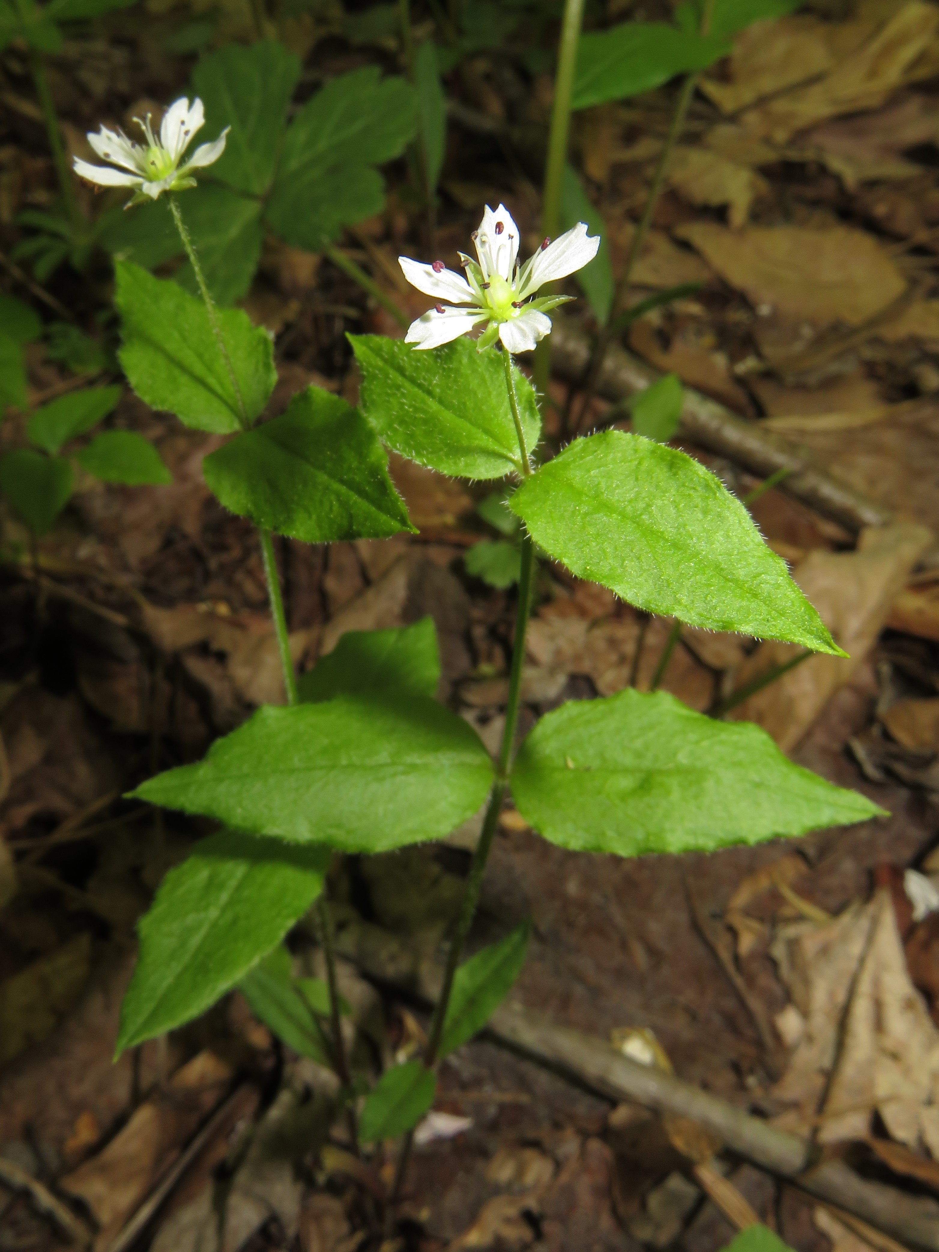 Pseudostellaria japonica, Naka-dori area, Fukushima pref., Japan